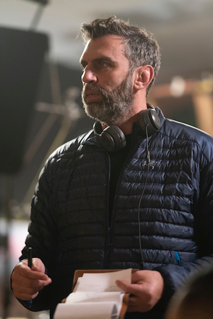 James Griffiths - 2019